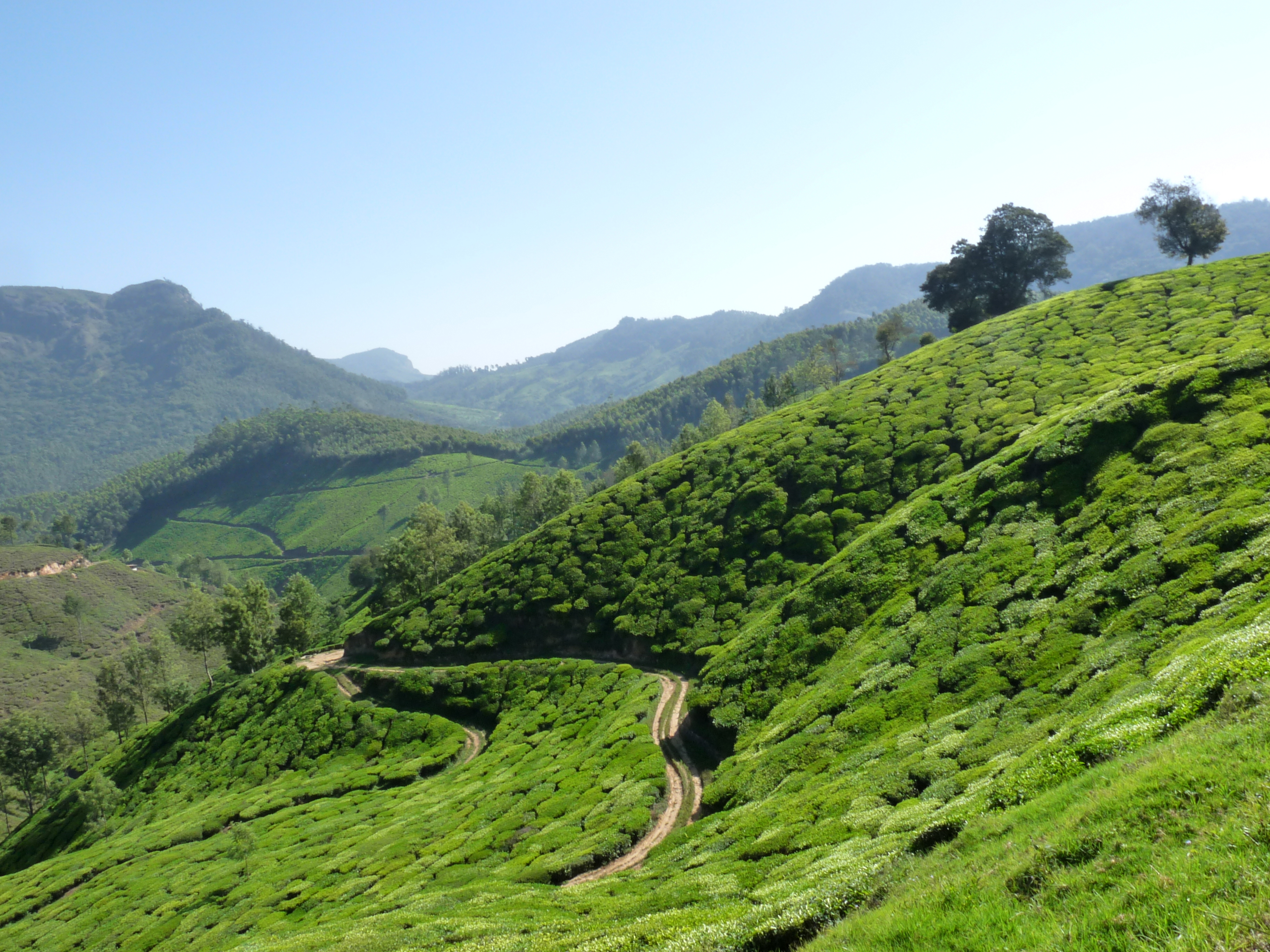 View of tea plantations in Munnar.